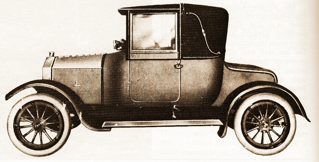 1920 Thor 15 hp